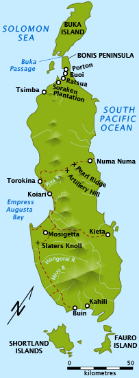 Shows key locations relating to Australian battles in Bougainville campaign, World War II, 1945.